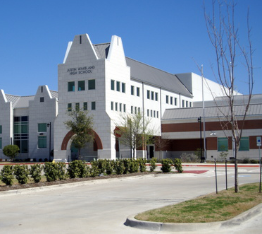 good ol' wakeland